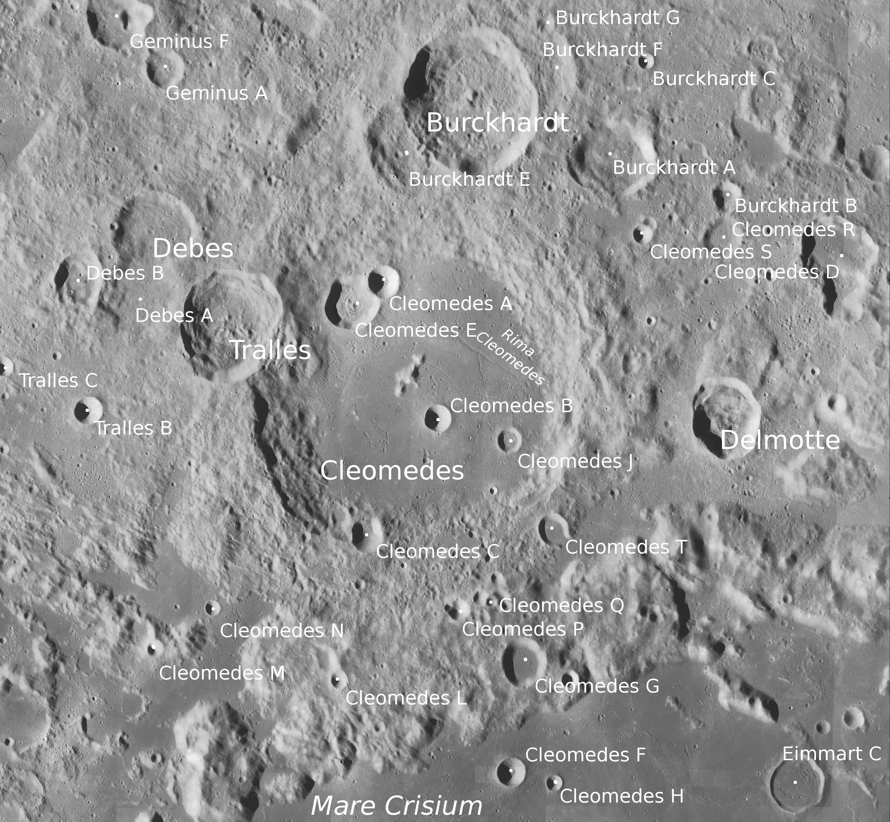 Craters Cleomedes, Tralles and Delmotte (detail of LROC - WAC global moon mosaic)